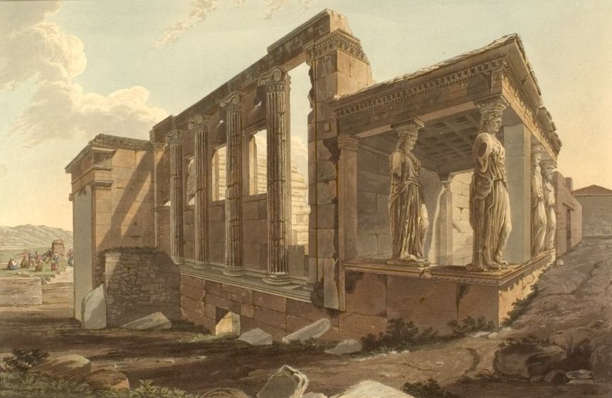 Southwest View of the Erechtheion